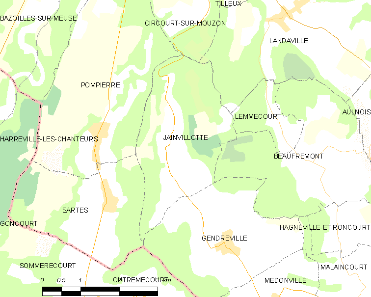 Map of French municipality Jainvillotte